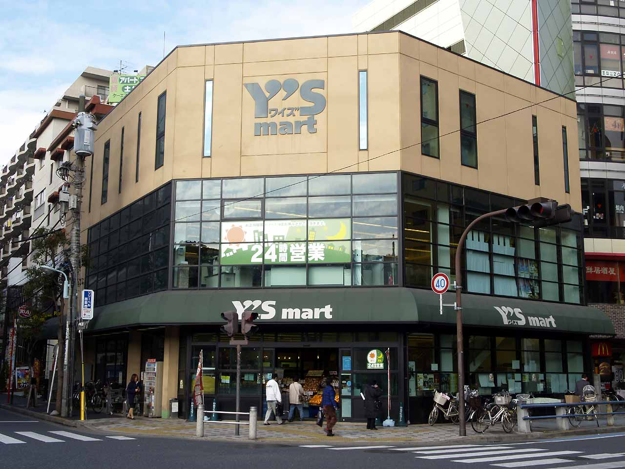 Y's mart, a supermarket in Western Chiba and Eastern Tokyo.